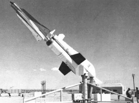 SAM-N-8 (RIM-50A) "TYPHON ER" missile on test launcher.